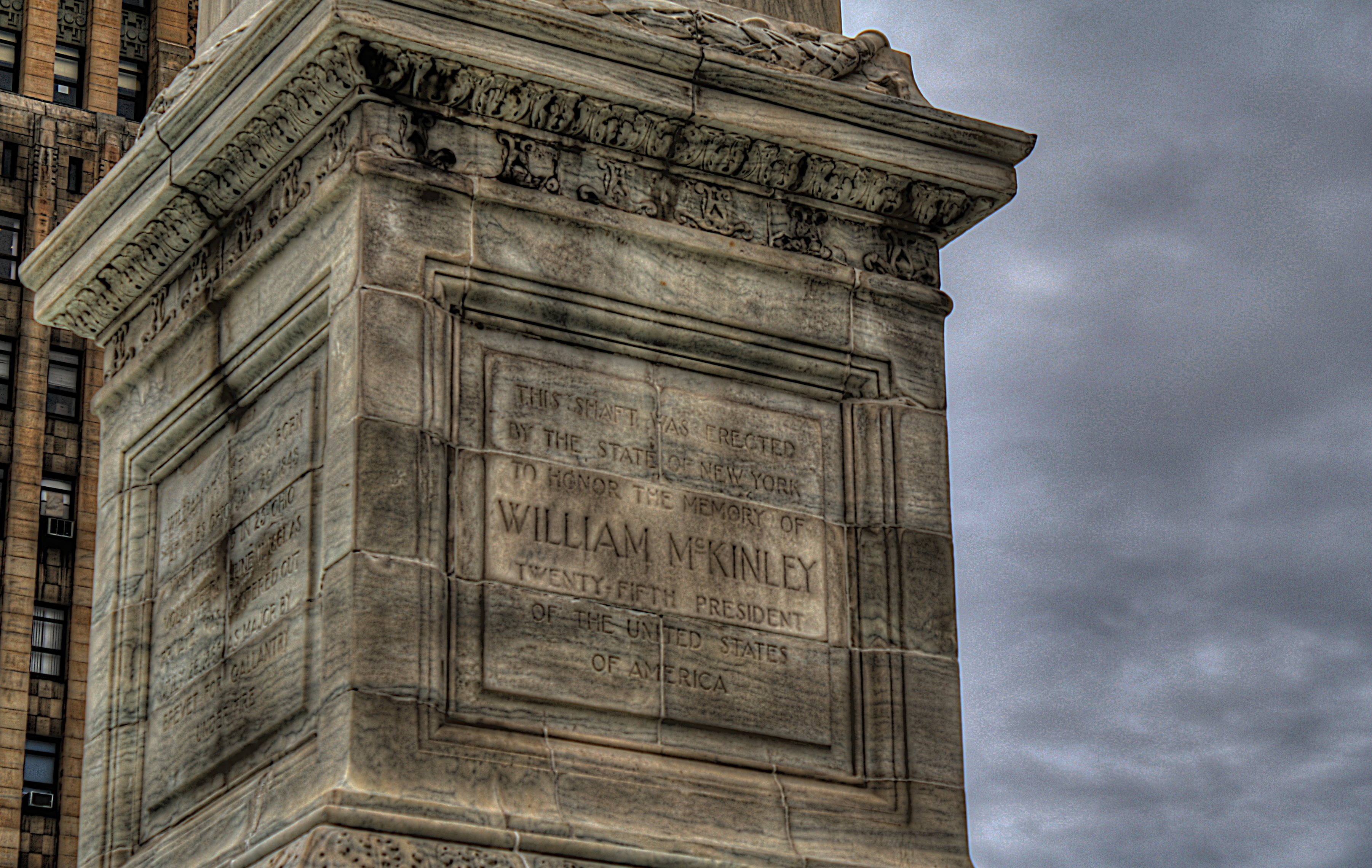 Buffalo, NY